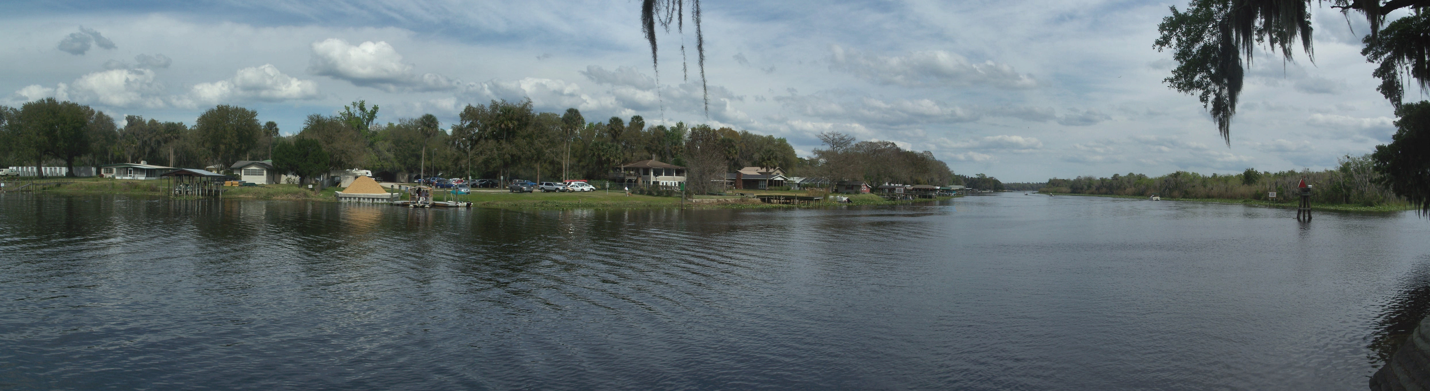 Panorama view from Hontoon Island State Park, in DeLand, Florida